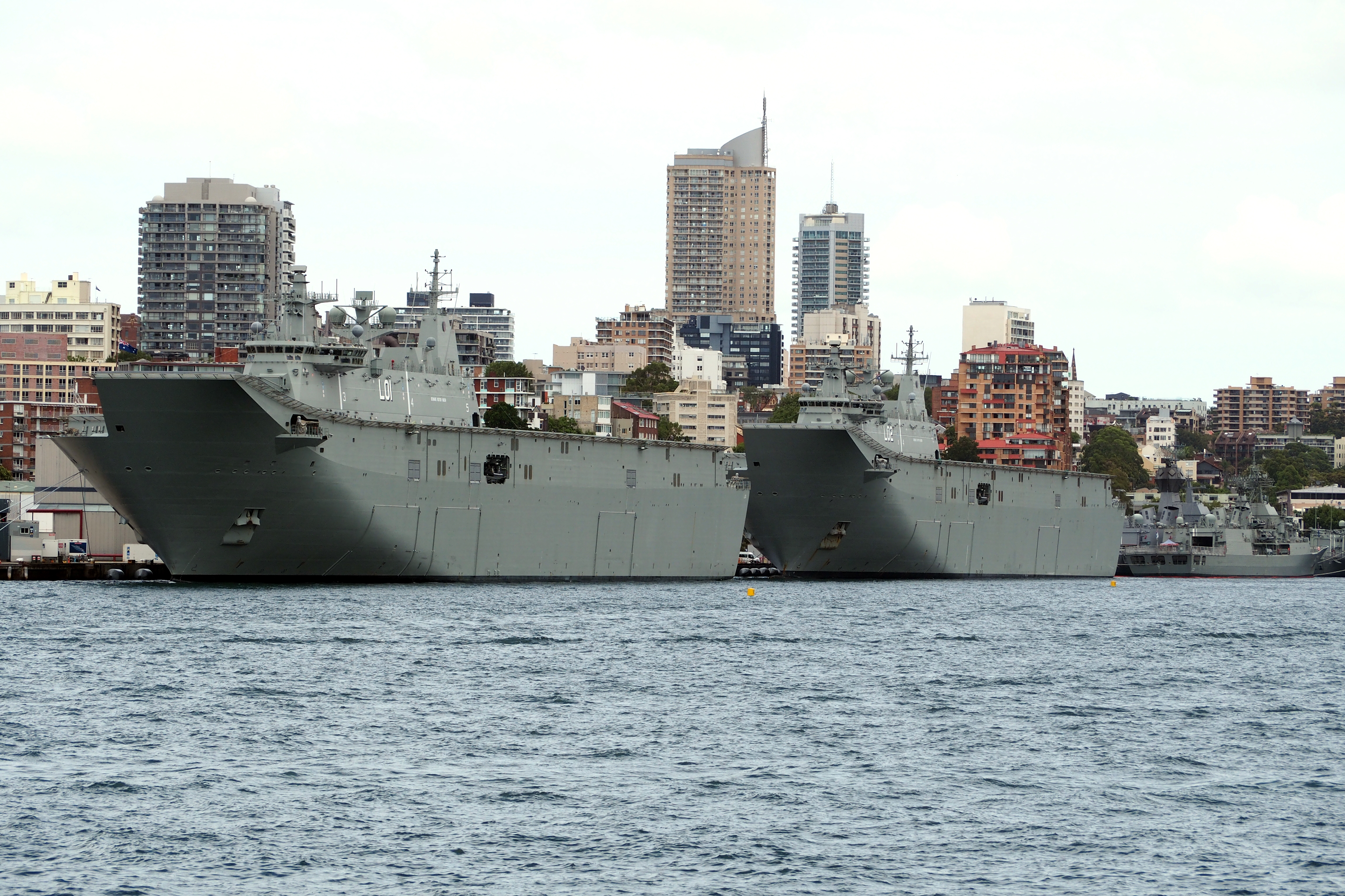 HMAS Canberra & HMAS Adelaide berthed at RAN Fleet Base East in Sydney on 2nd Jan 2016